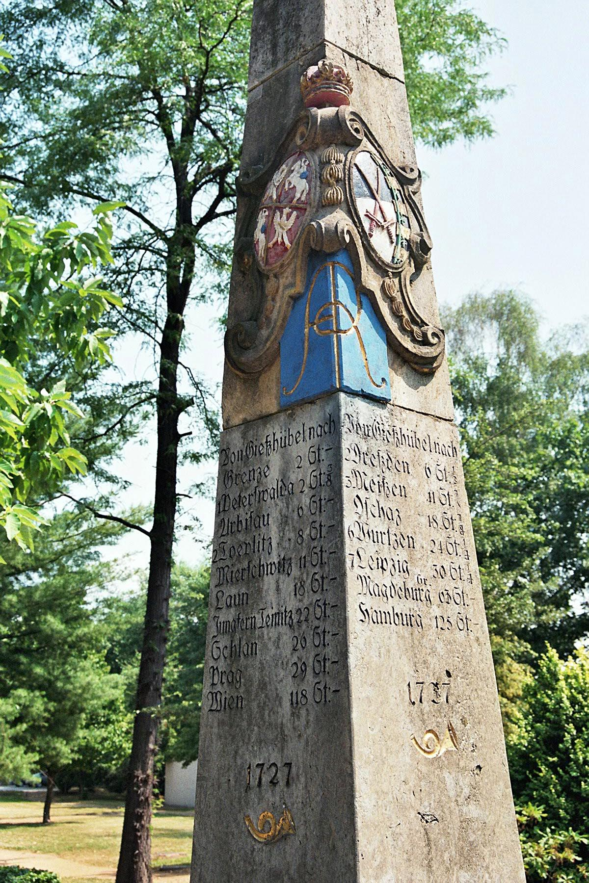 Berggießhübel: The electoral saxonian coat of arms and the table of distances on the post mile pillar from 1727. The distances are expressed as "hours" (1 hour is equivalent to 4,531 km).